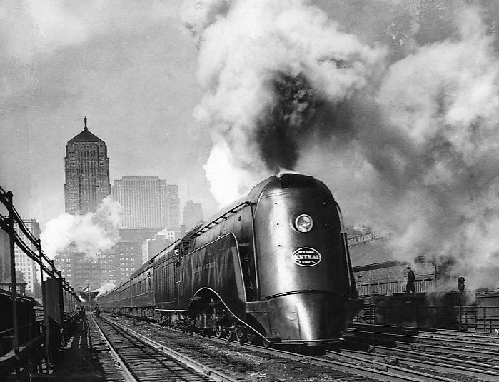 Photo of the streamlined steam locomotive New York Central Hudson No.5344 "Commodore Vanderbilt", as it left Chicago's LaSalle Street station pulling the 20th Century Limited.